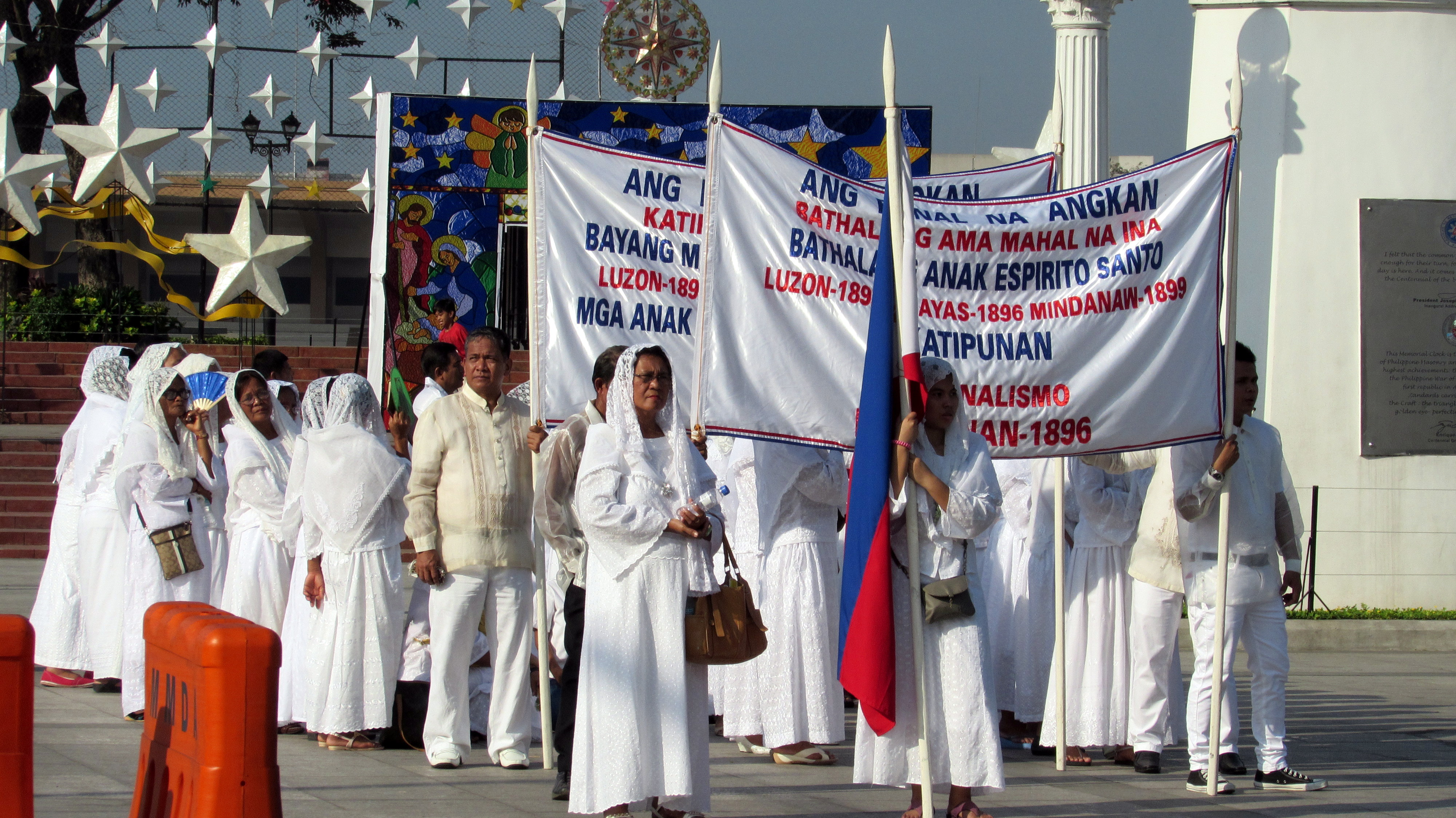 Members of the cult of Jose Rizal during the 2015 Rizal Day Celebration at the Rizal Monument in the Luneta Park.